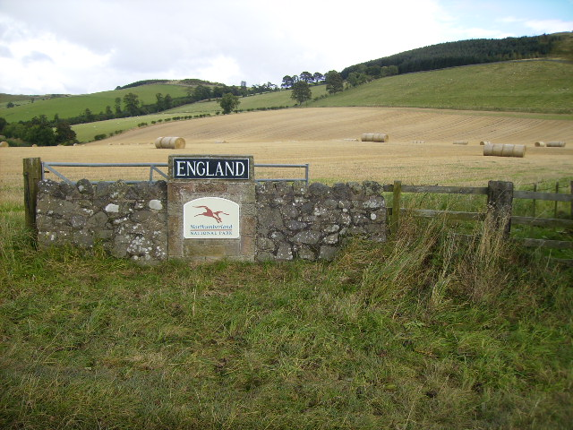 The border of the Northumberland National Park Also the English border at Yetholm Mains.